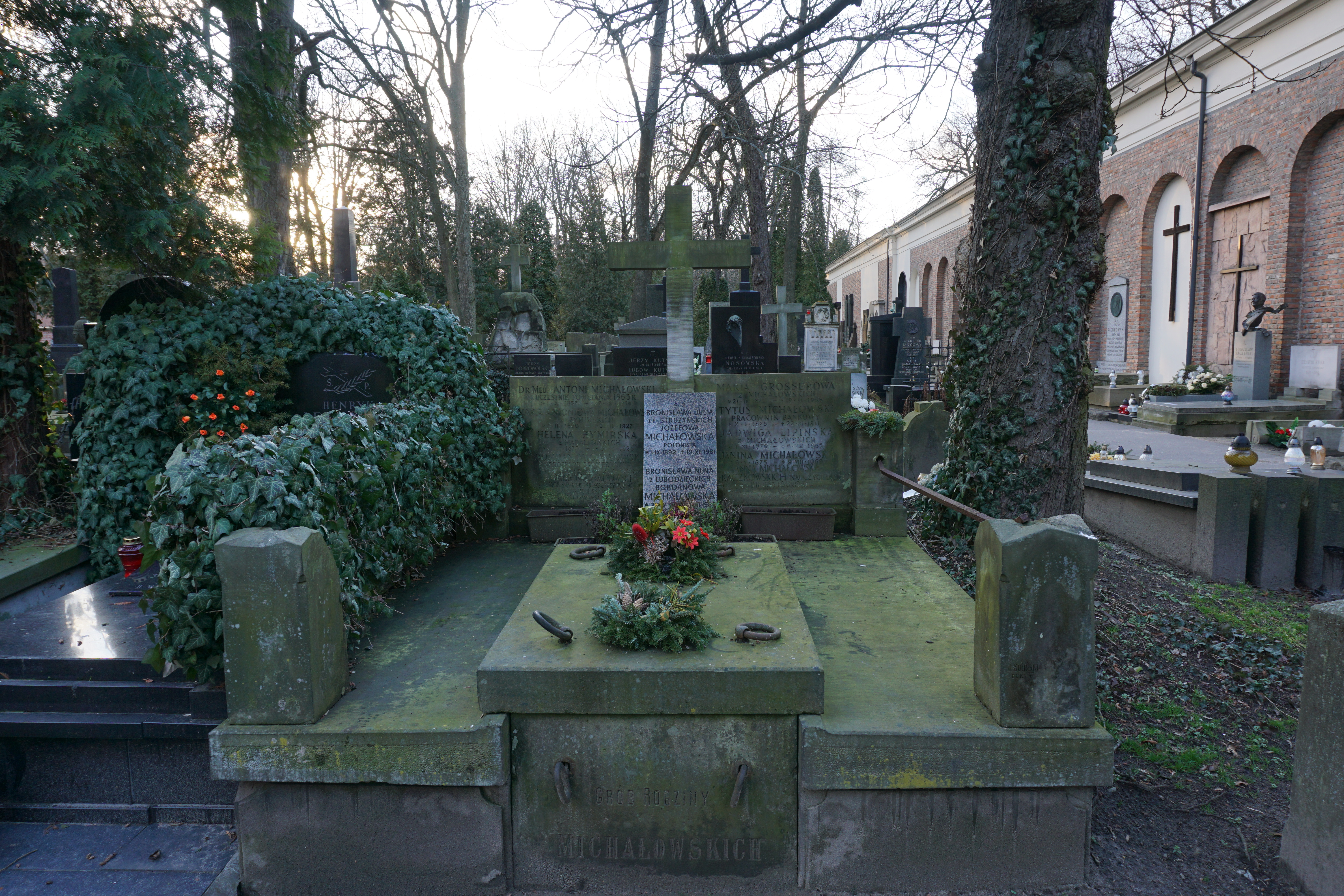 The grave of Antoni Michałowski at the Powązki Cemetery (section 170, row 1, grave 5, 6)